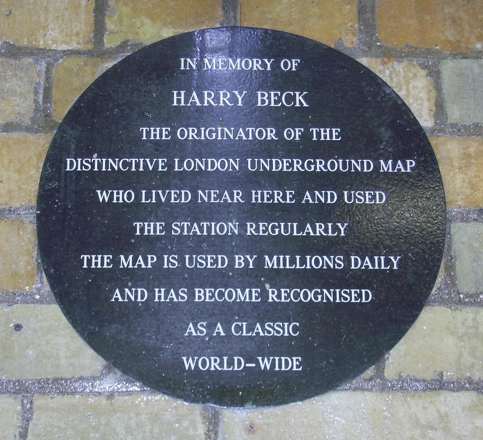 Memorial plaque to Harry Beck, Finchley Central tube station, London (taken 11 August 2008).